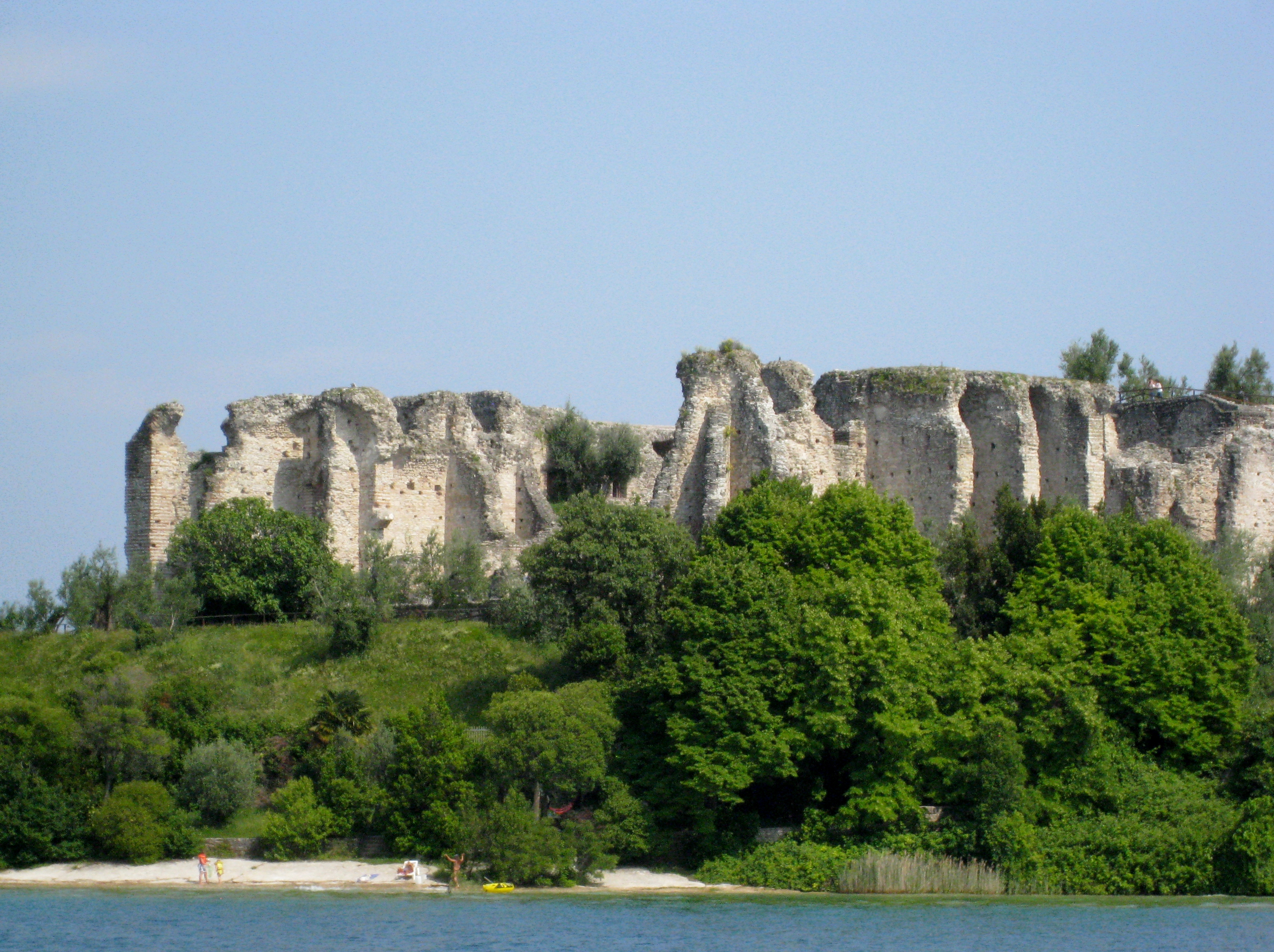 A view of the Grotto of Catullus from Lake Garda in May 2012.